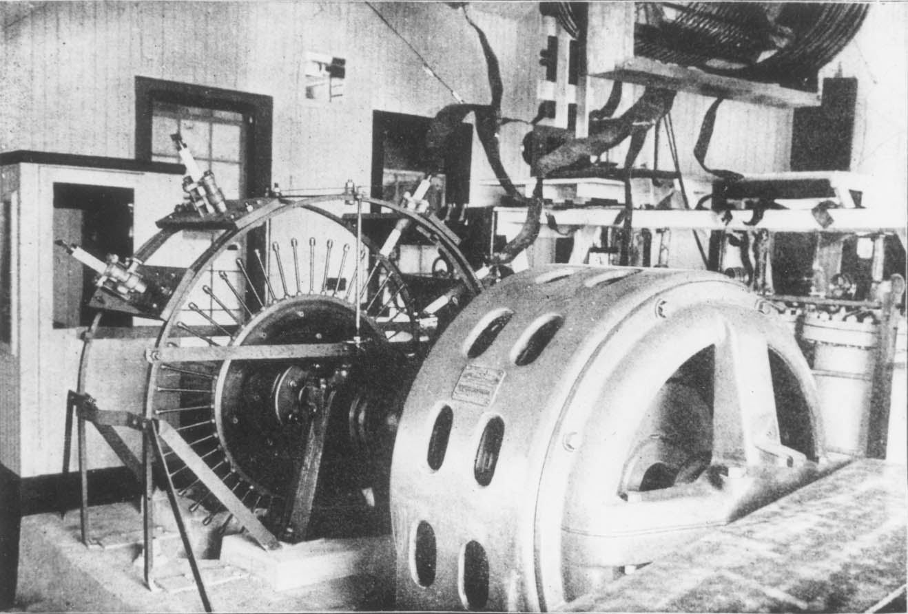 500 CPS Synchronous Rotary Gap transmitter at Brant Rock, Ma. Ca: 1906.